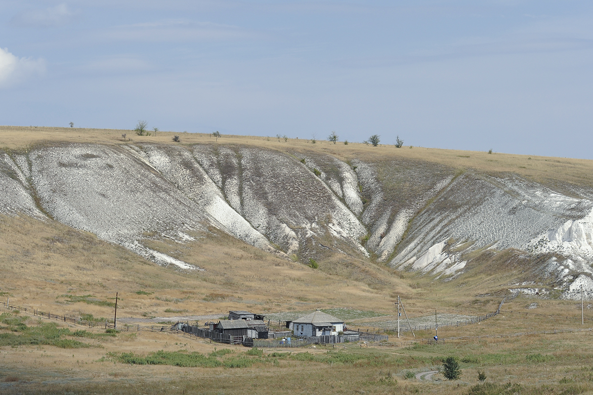 Cretaceous mountains. Khutor Serov, Shestakovo village, Bobrovsky District, Voronezh Oblast, Russia